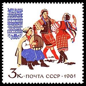 Ukrainians in traditional dress.